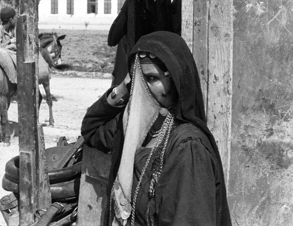 A veiled Arab woman in Bersheeba, Palestine.